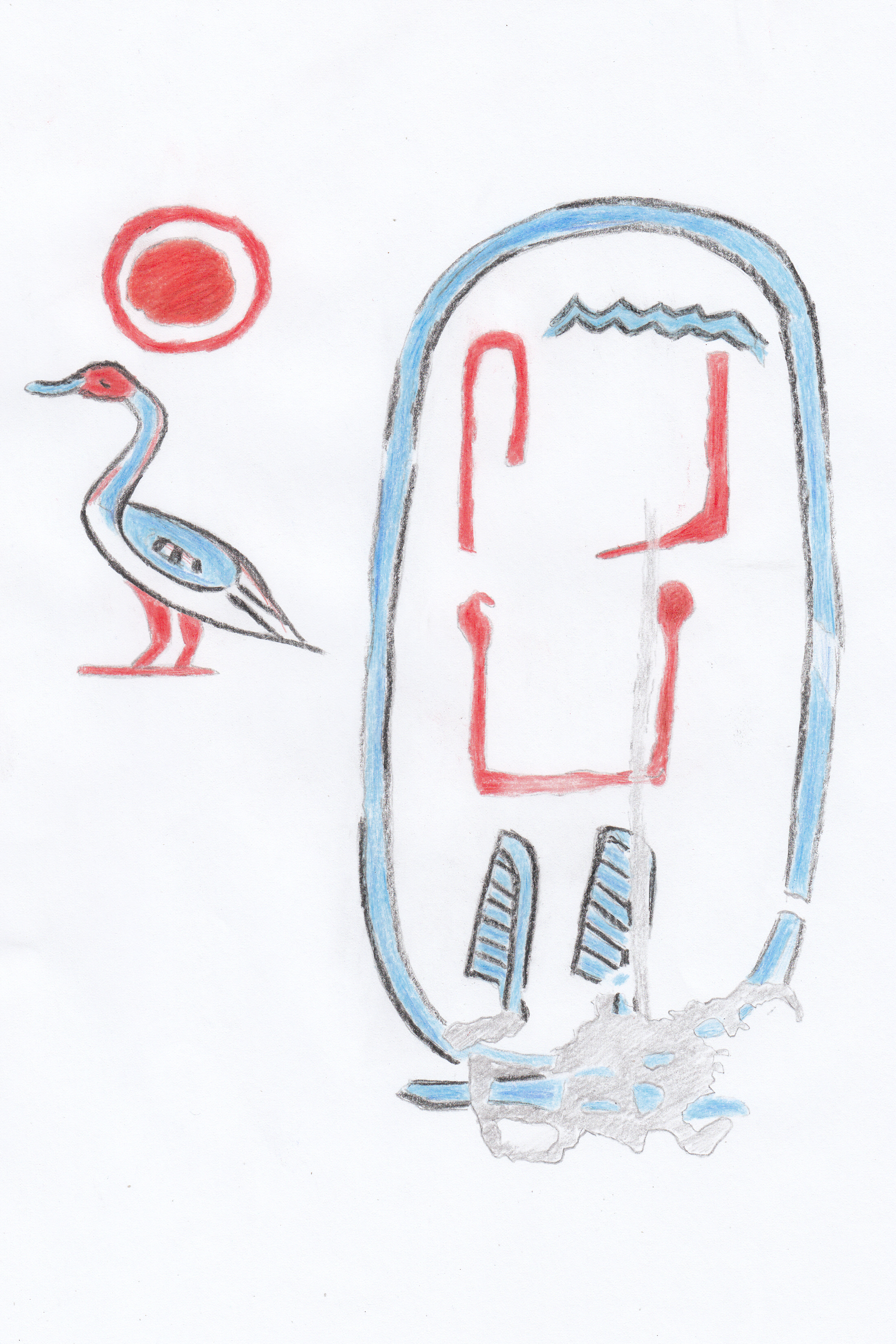 Cartouche of pharaoh Senebkay of the Second Intermediate Period (Abydos Dynasty or 16th Dynasty) from his tomb found near Abydos. Coloured pencil drawing based on pictures of the tomb (here an example). "The son of Ra, Senebkay"